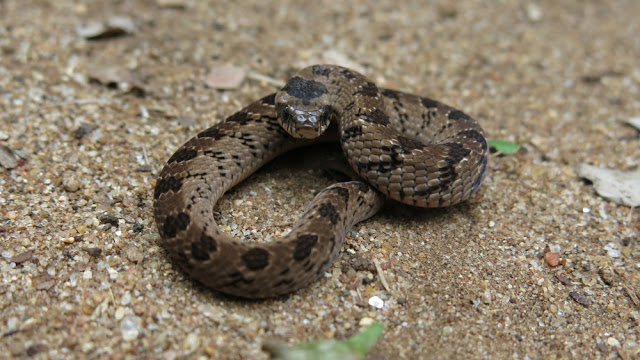 Snouted Night Adder, photographed in the wild.